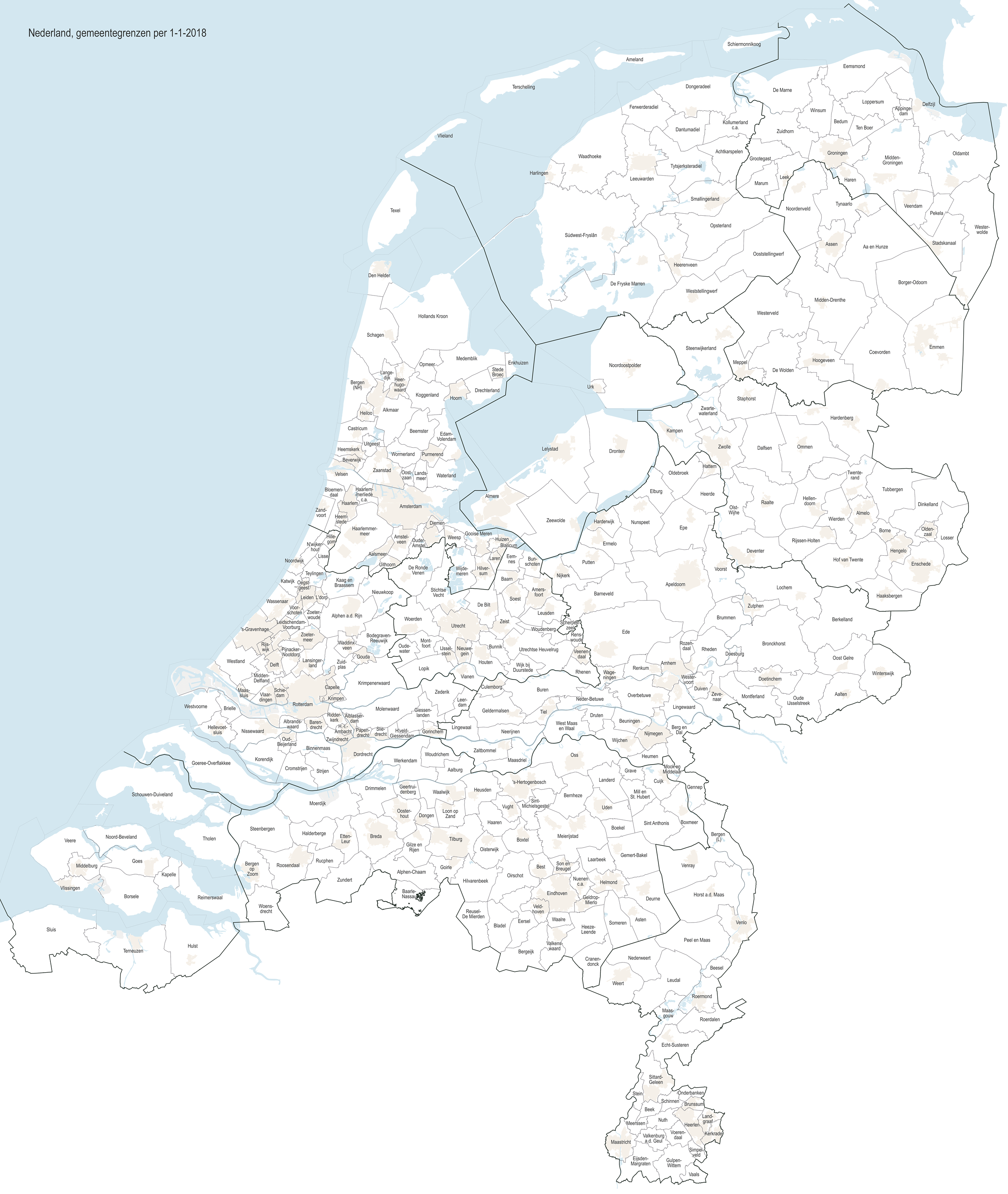 Basic overview map of the 380 Dutch municipalities as of 2018.